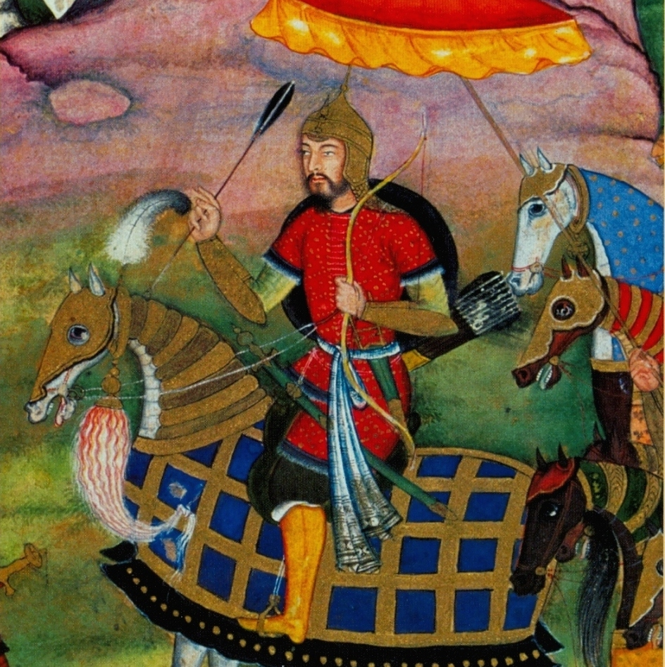 The Second Mughal emperor, Humayun. Detail of miniature from the Baburnama, A.D. 1590s